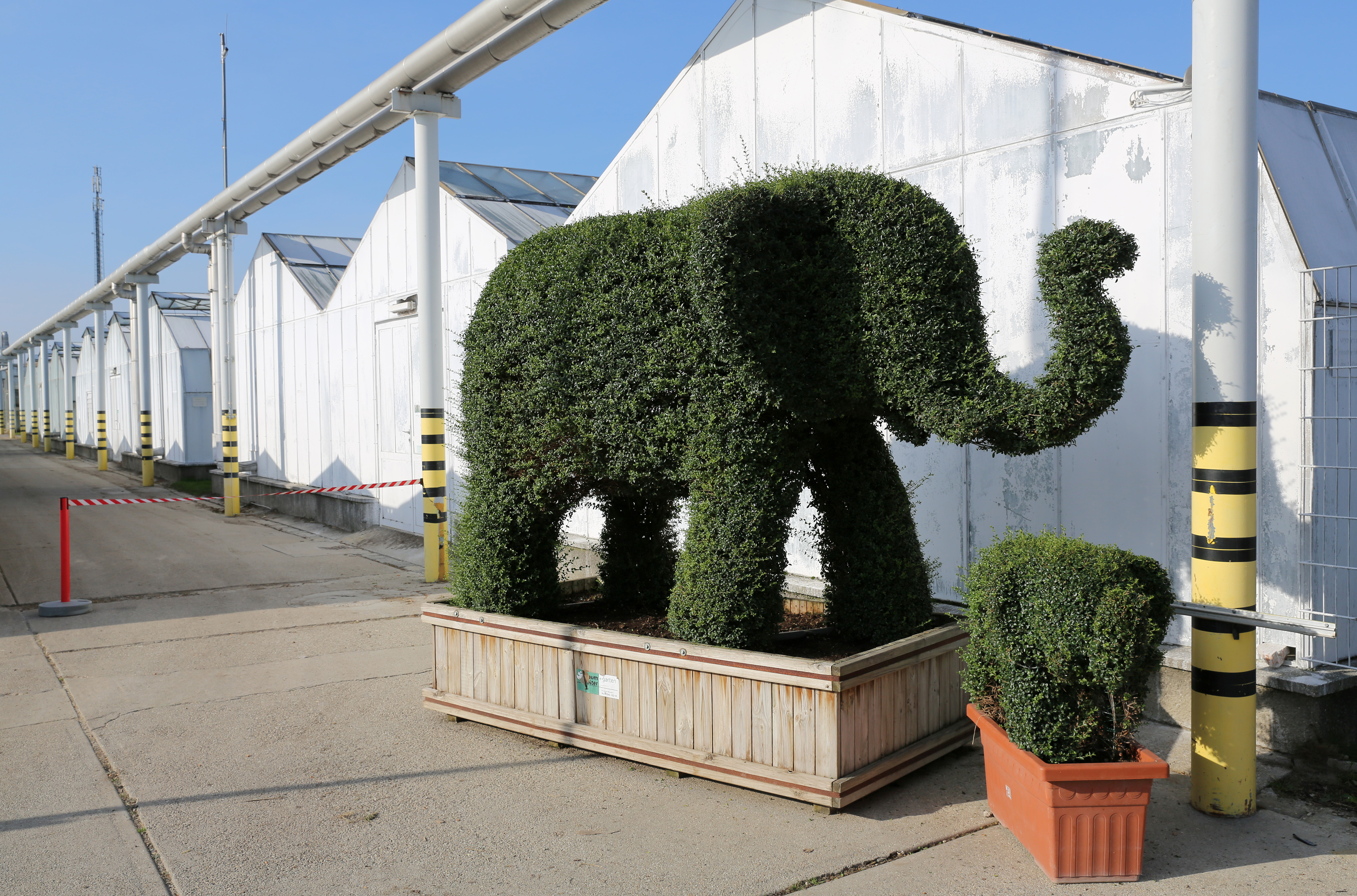 Blumengärten Hirschstetten in Vienna, Austria.